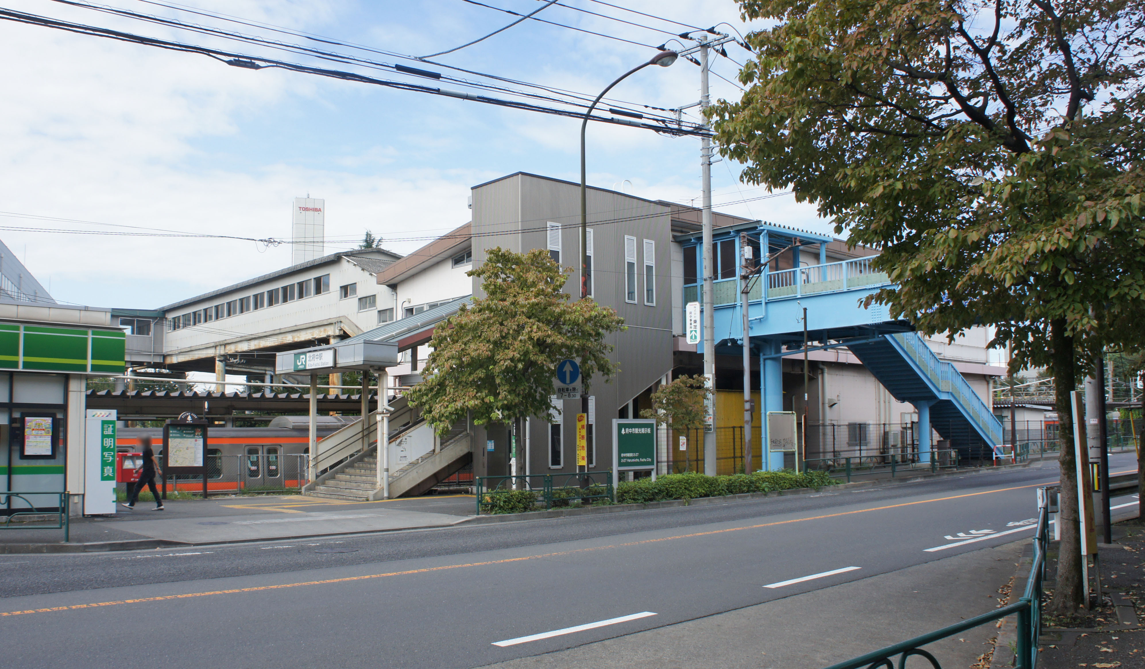 Station building of JR Musashino-Line Kita-Fuchu Station